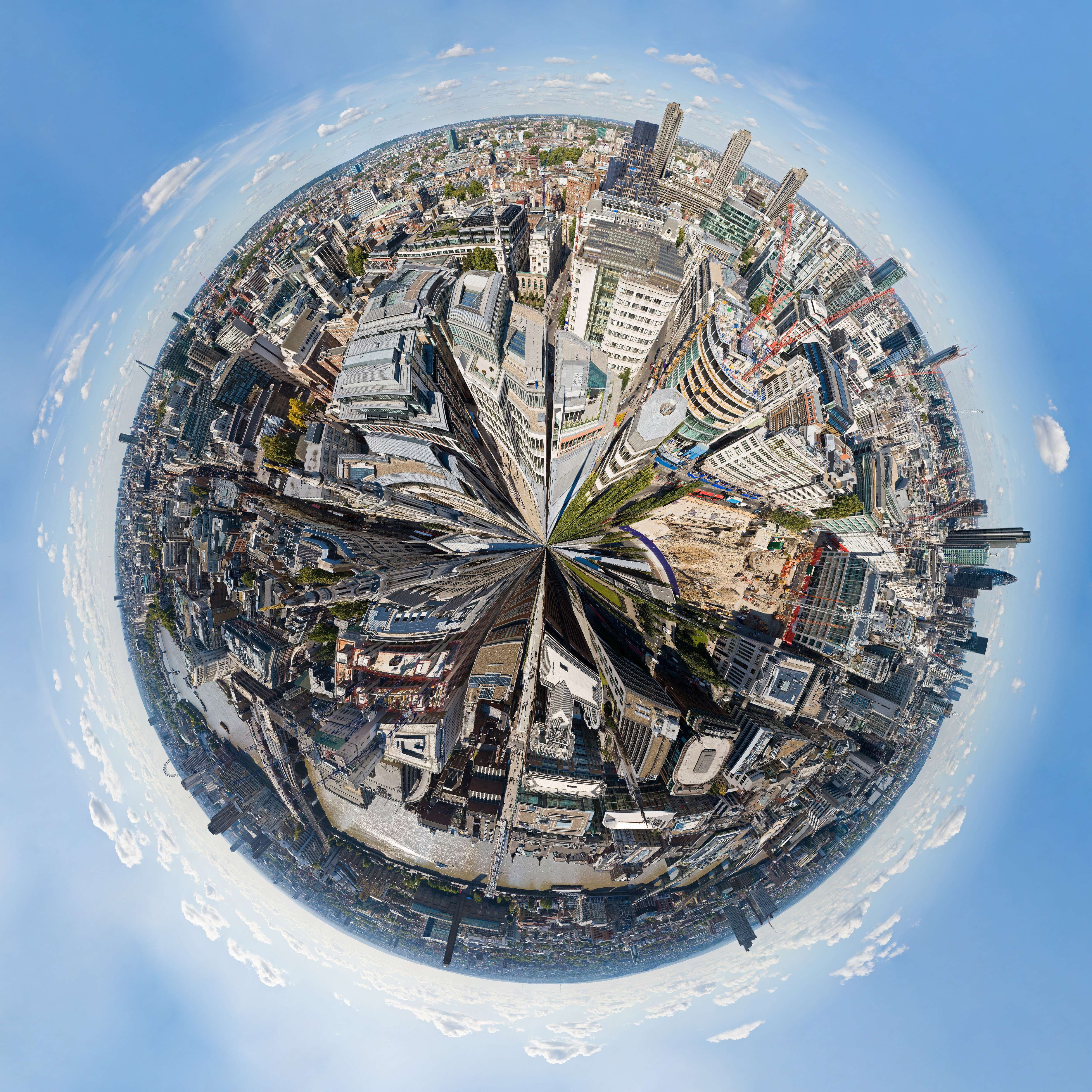 What London would look like if it were a planet. A polar coordinate filter applied to a 360 panorama of London taken from St Paul's Cathedral.